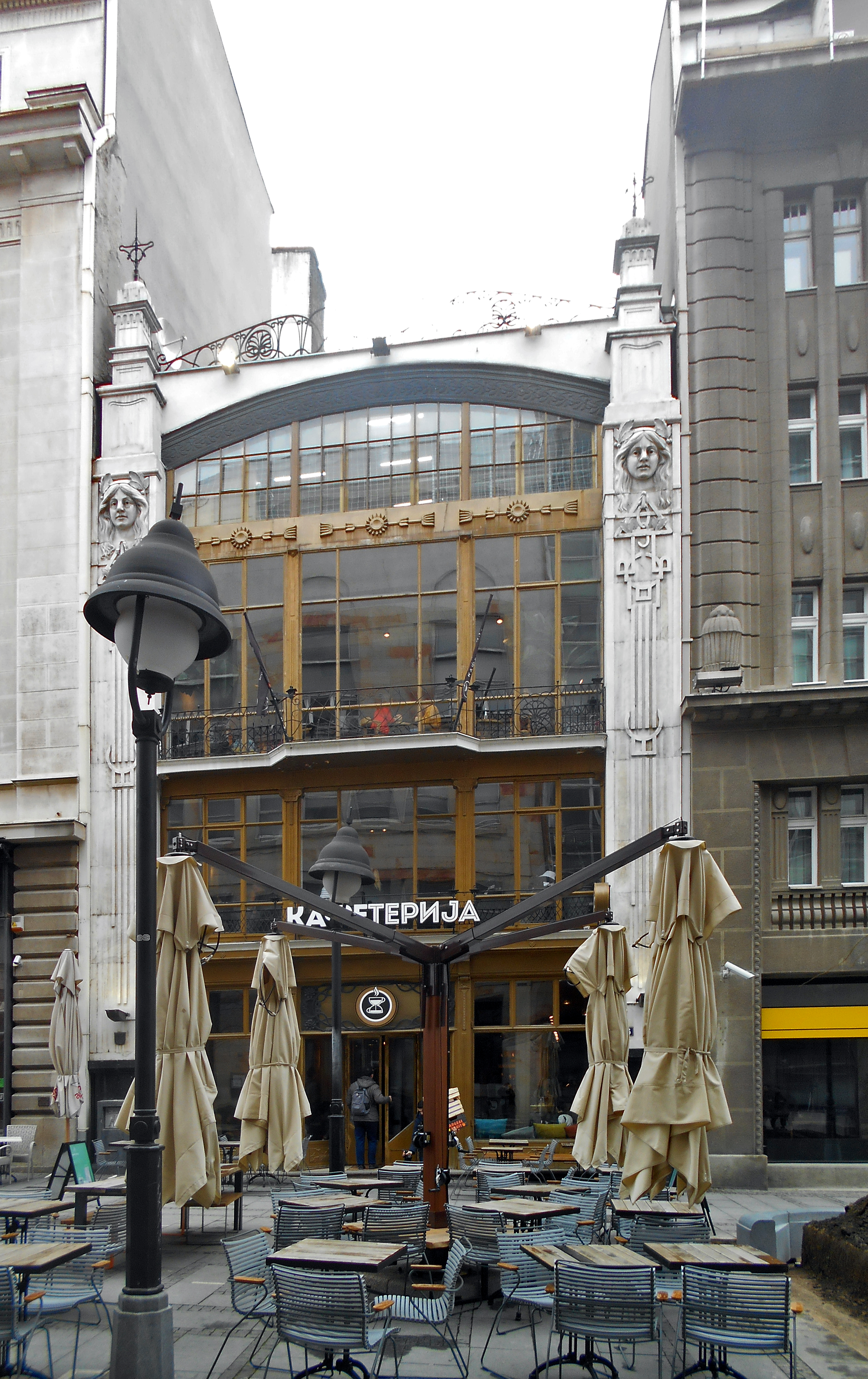 The building in the Art Nouveau style in 16 Kralja Petra street in Belgrade, Serbia